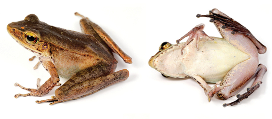 Figure 4; Meristogenys orphnocnemis. Pairs of photos (dorsolateral and ventral) depict the same individual.